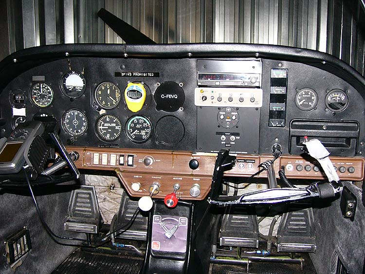 I took this photo of an American Aviation AA-1 Yankee instrument panel on 21 October 2006